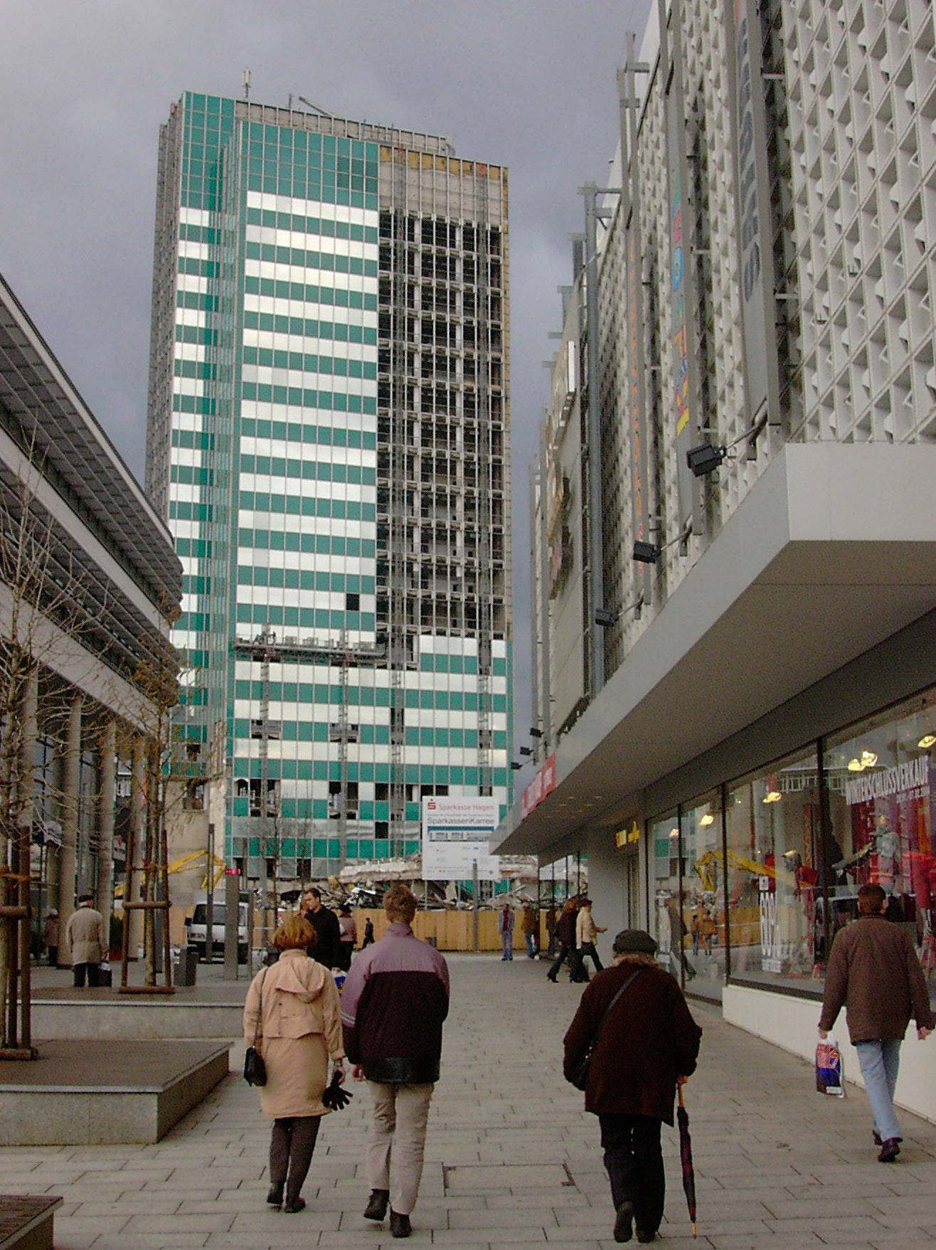 Office building "Long Oskar" in Hagen (North-Rhine-Westphalia, Germany) a few weeks before demolition